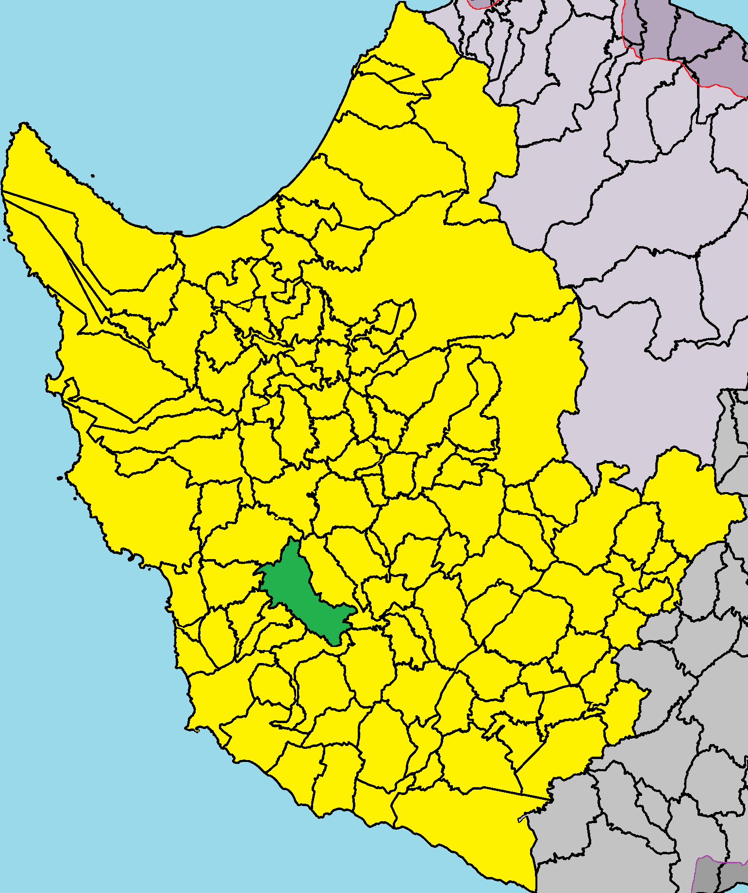 Tsada in Paphos District.